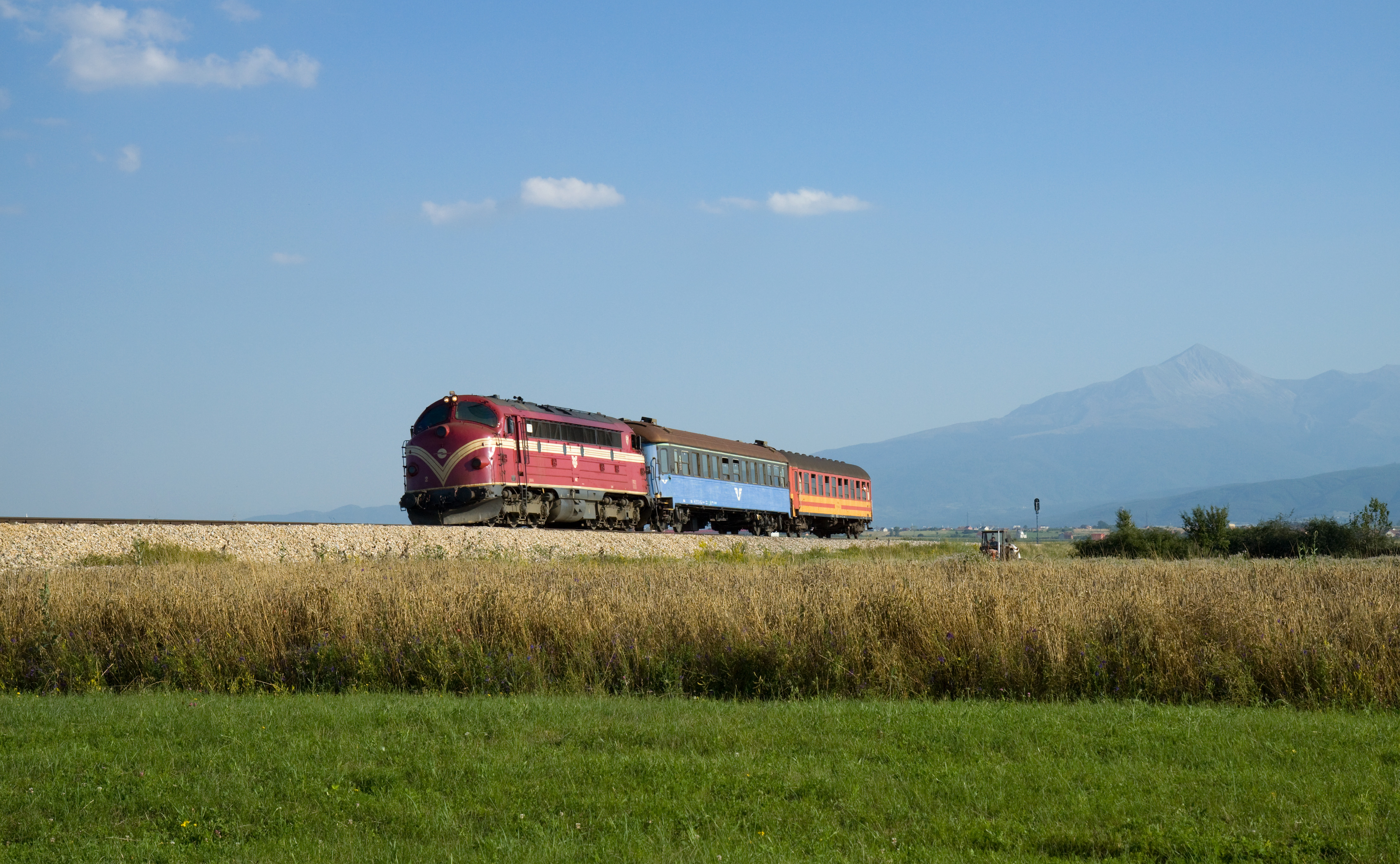 Former NSB Di 3 "NOHAB", now Kosovo Railways 007 with the Intercity train from Hani i Elezit (border to Macedonia) to Pristina, near Bablak.